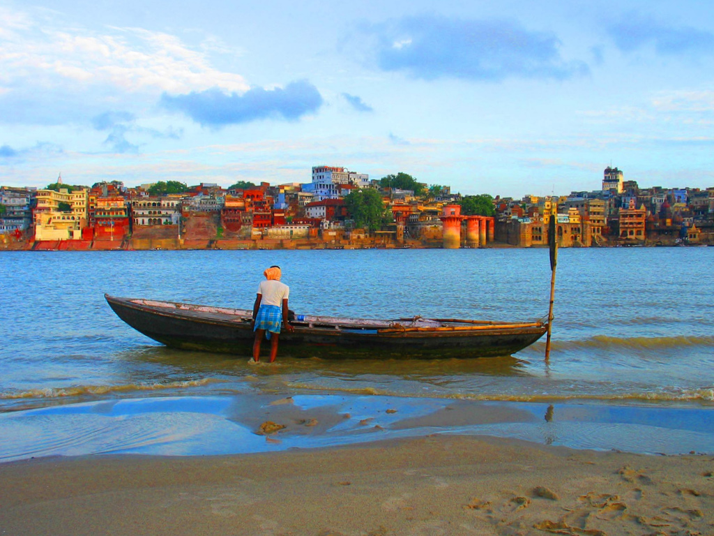 Early morning view of Varanasi city from opposite bank.